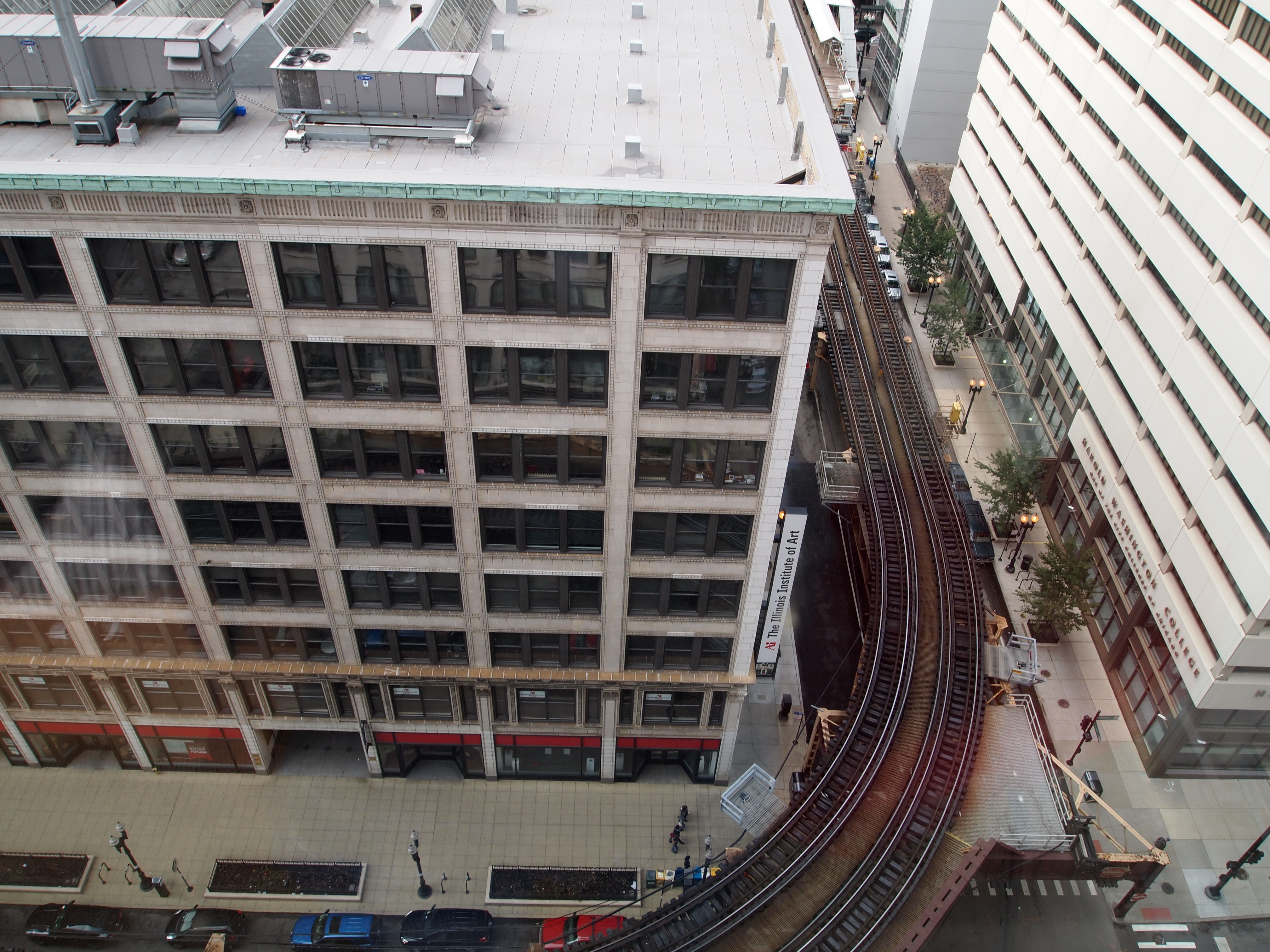 Bedroom view down to the Illinois Institute of Art and the CTA tracks at the site of the 1977_Chicago_Loop_derailment.